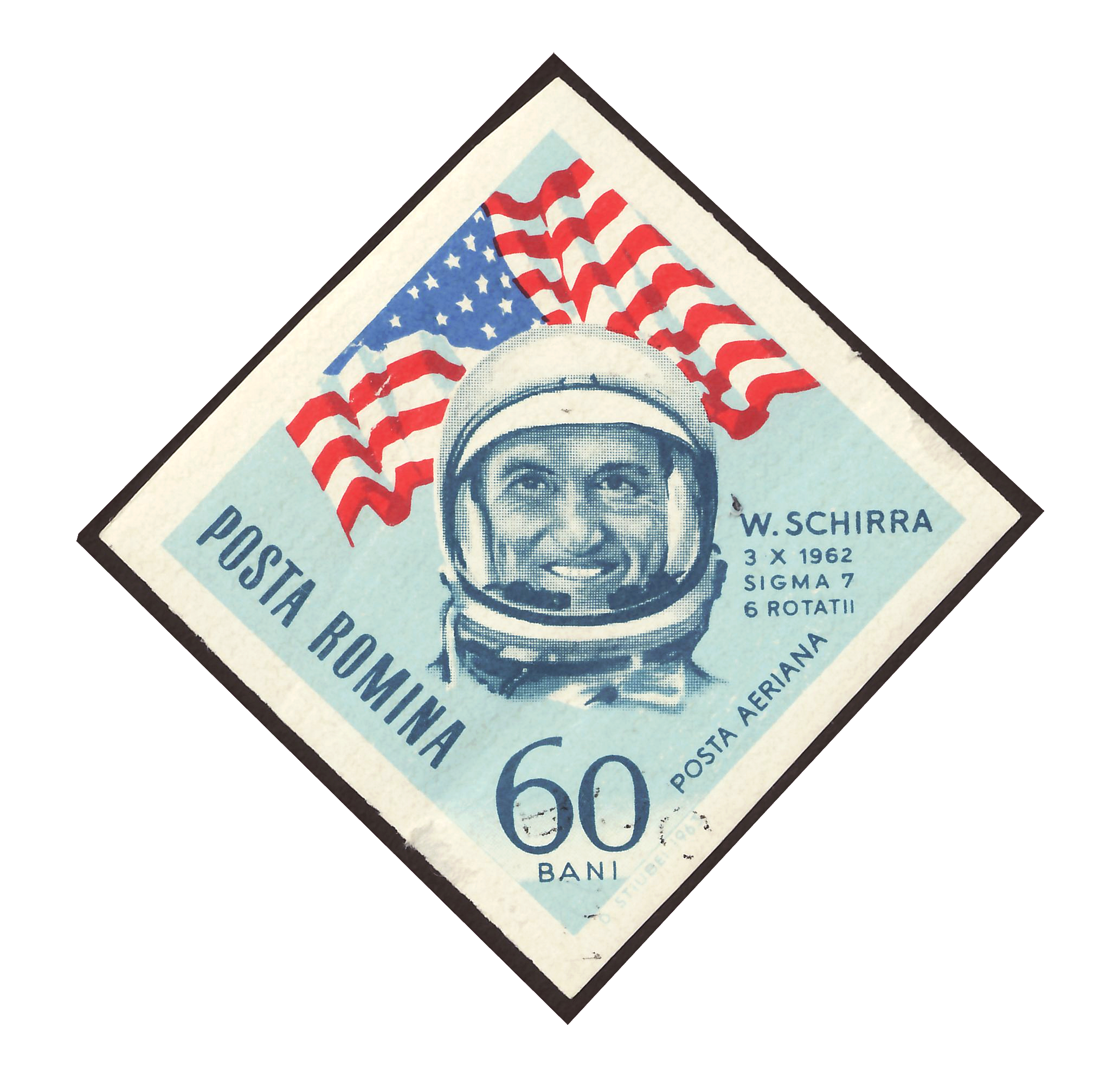 Stamp of Romania; 1964; airmail stamp of the issue "Cosmonauts and Astronauts", drawing of the US-American astronaut Walter Schirra before US-flag; imperforate stamp in quadratic rhomb format; stamp postmarked Stamp: Michel: No. 2254; Yvert et Tellier: No. PA205; Scott: No. 2336 Color: multicolored (black/blue/red on light blue background) Watermark: none Nominal value: 60 Bani Postage validity: from 15 January 1964 until ? Stamp picture size (printed area without signature line): 33.5 x 33.5 mm